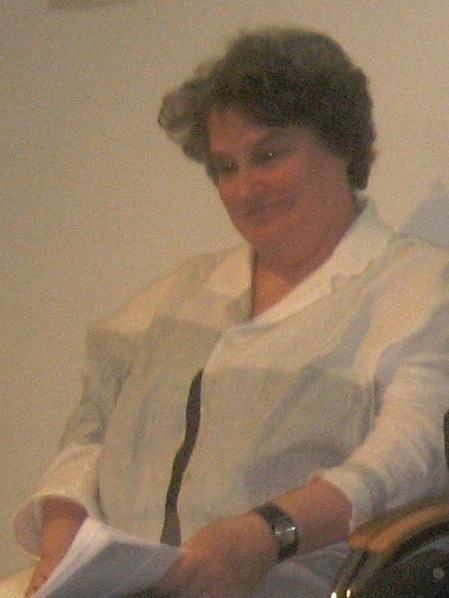 South African writer Marlene van Niekerk in The Hague (24 Sept. 2016)